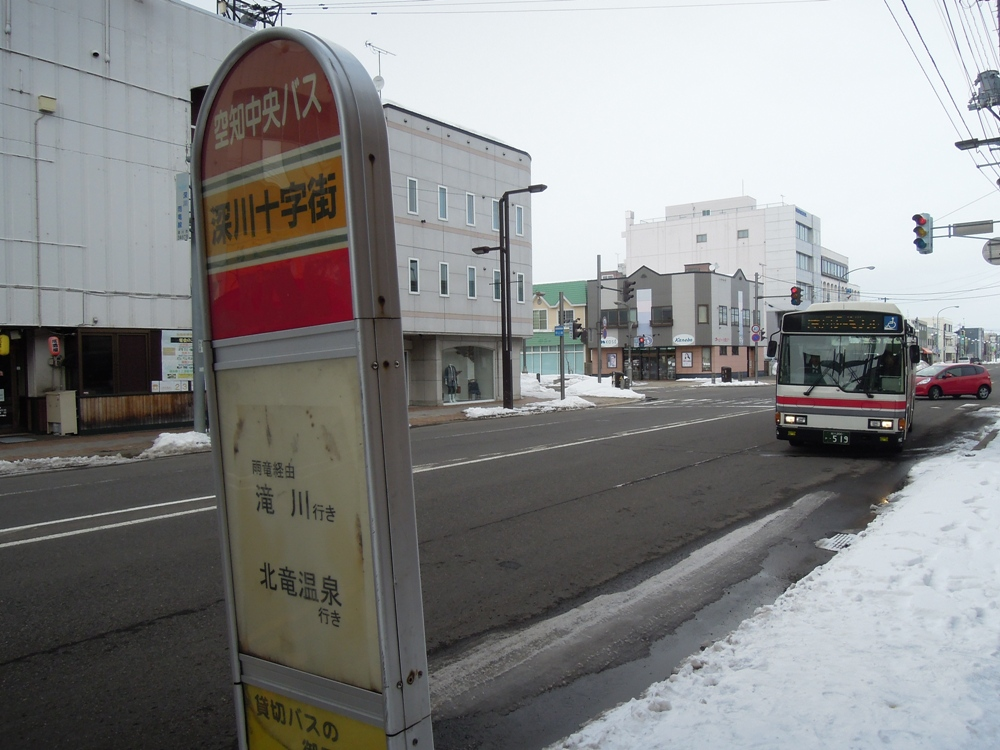 Sorachi Chuo Bus "Fukagawa Jujigai" bus stop Moseushi direction (Fukagawa, Hokkaido)